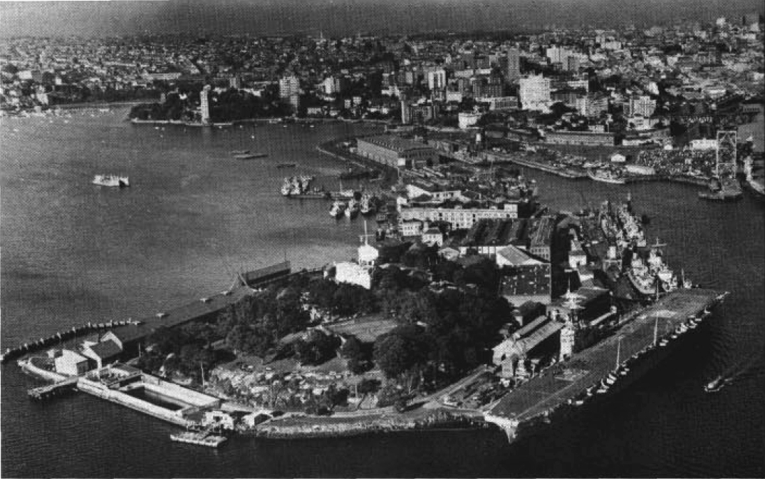 View of the Royal Australian Navy's Fleet Base East on Garden Island, New South Wales (Australia), circa 1962. The aircraft carrier HMAS Sydney (R17) and several destroyers are moored at the base.